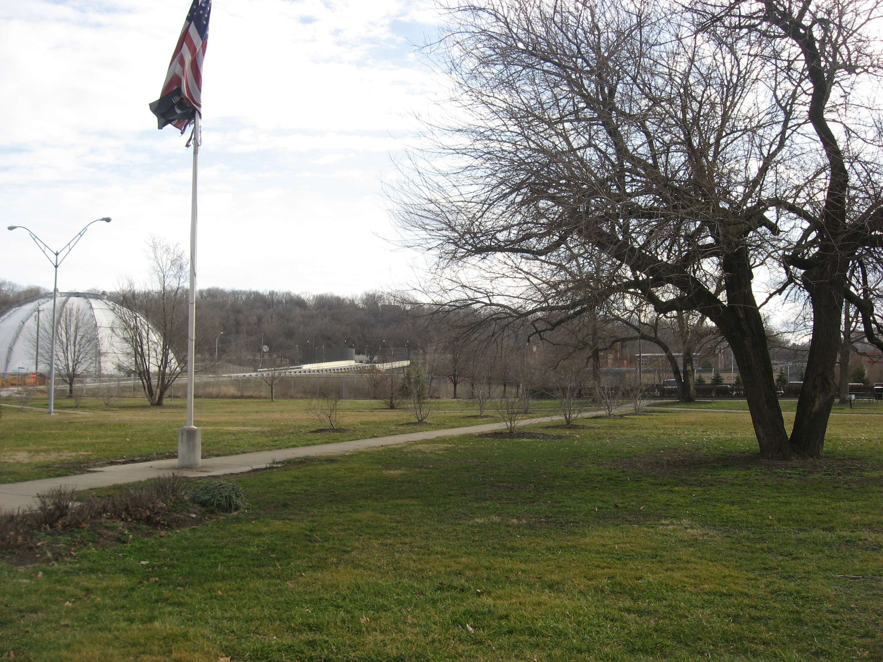 View from the west of Valley Park, located along the eastern side of Colerain Avenue in the Camp Washington neighborhood of Cincinnati, Ohio, United States. This lot was formerly the location of the Cincinnati Work House and Hospital; built in 1869, it is listed on the National Register of Historic Places despite having been destroyed.